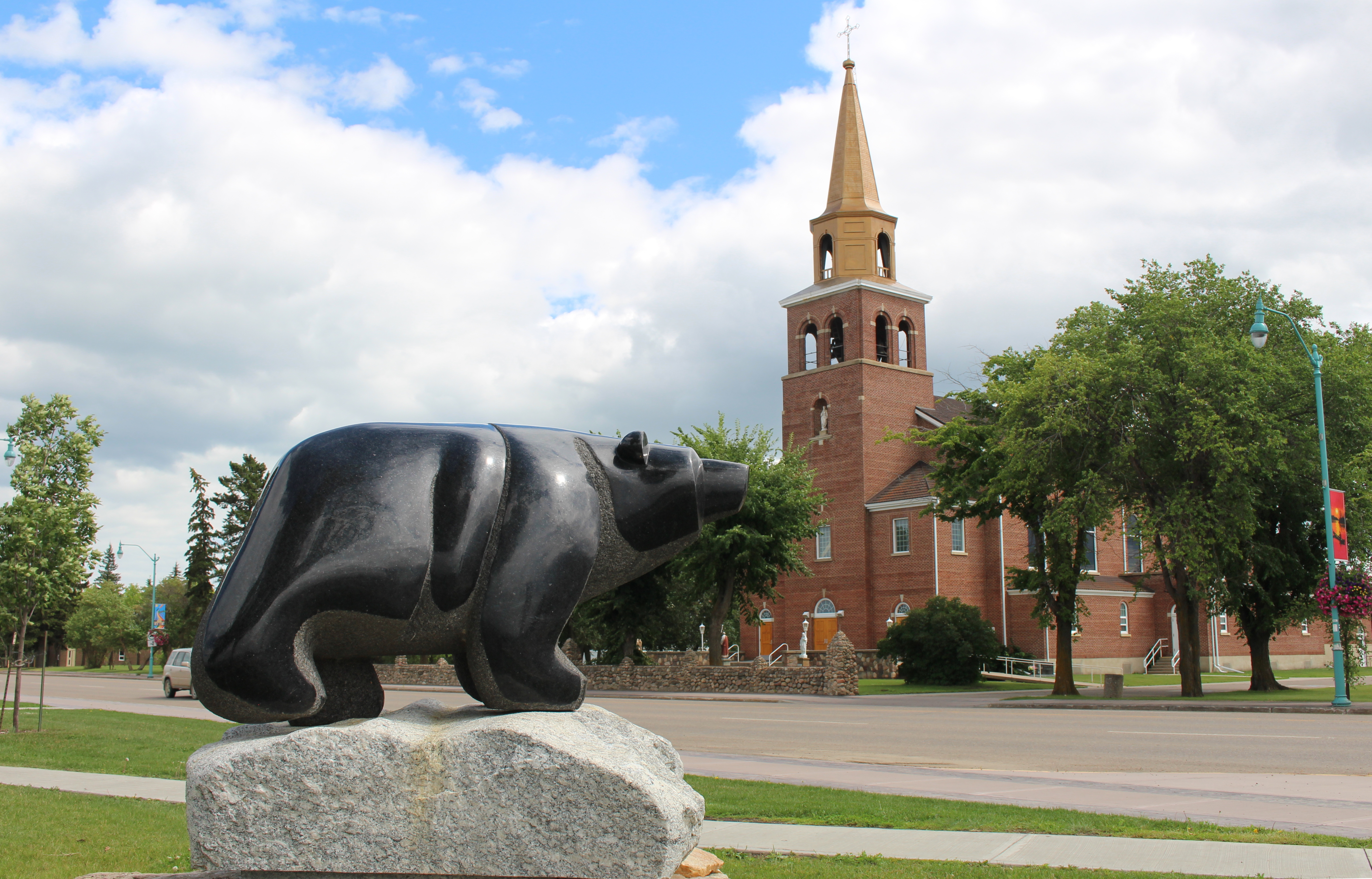 St. Paul Cathedral in St. Paul, Alberta, Canada.